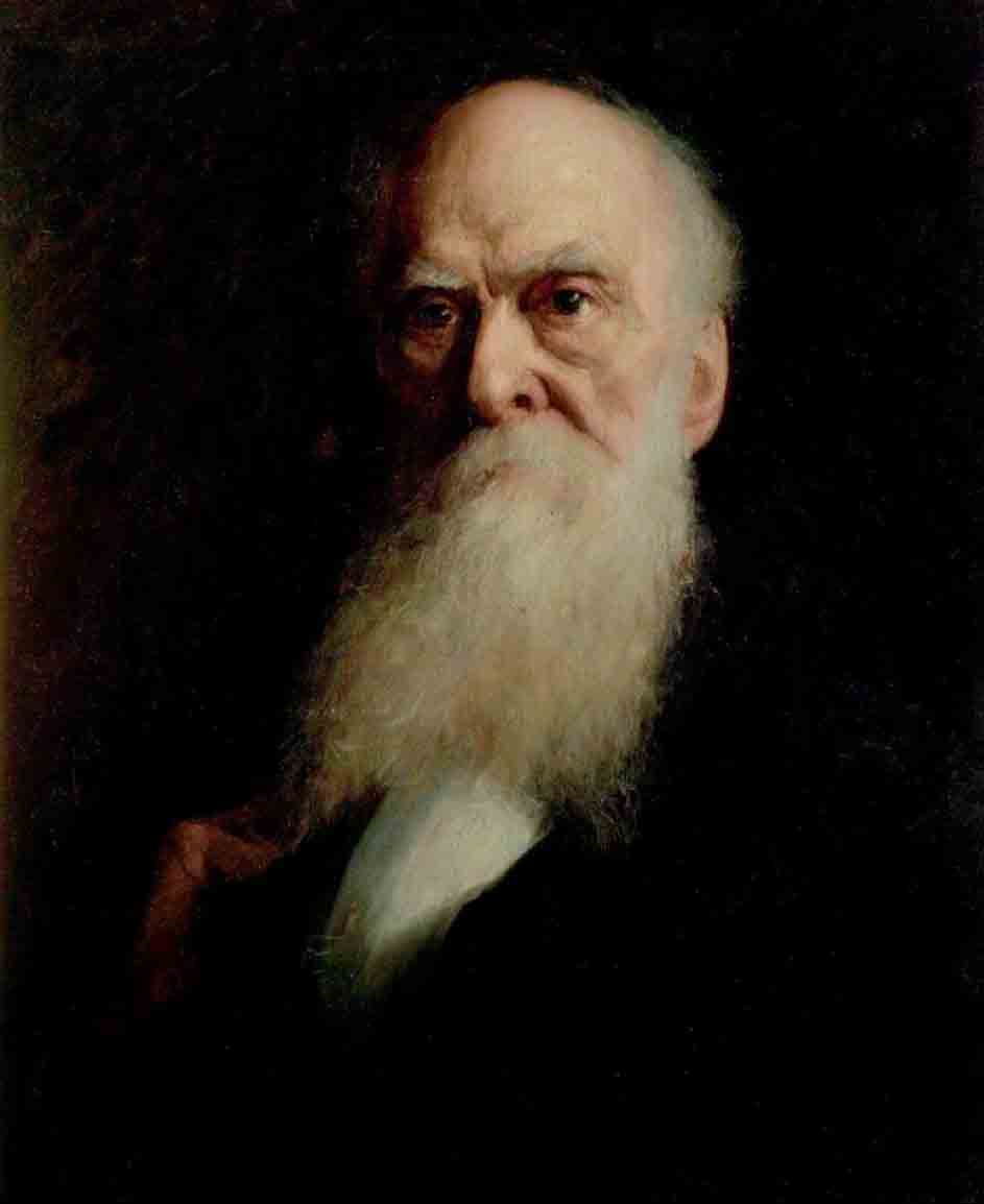 Portrait of William Cubley (1816–1896) by William Nicholson, painted 1892 or later, now in the Long Gallery of Nottingham Castle, presented by the sitter's daughter Jane Ann Cubley in 1922. Browse #17, Reed #15. Created 1892 or later (but before 10 August 1896, when Cubley died)